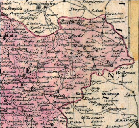 New Silesia on a map from 1805